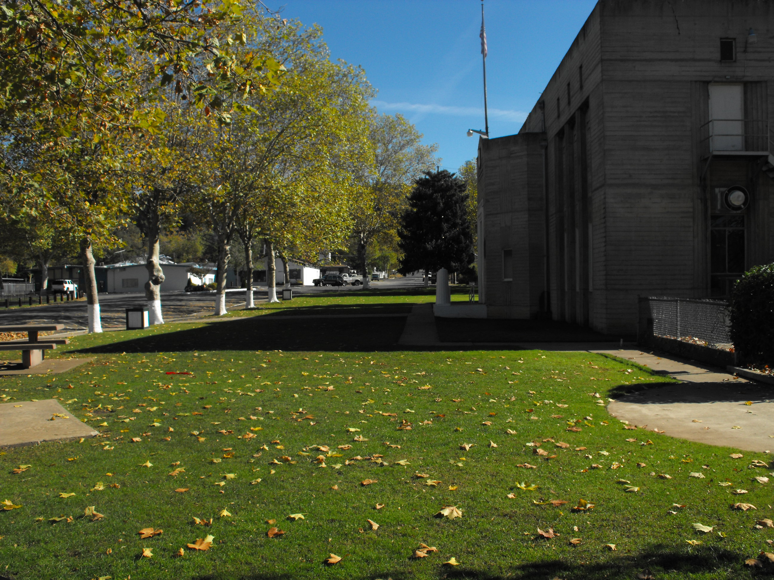 Memorial Hall in downtown Tuolumne City where municipal functions take place.